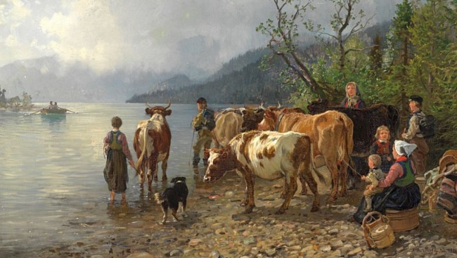 Cowsby